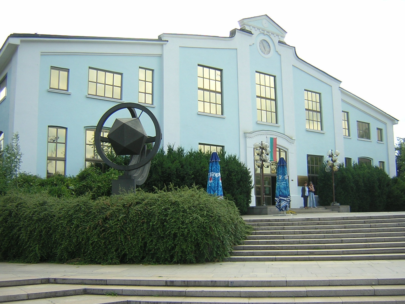 Entrance of the Earth and Man National Museum, Sofia, Bulgaria